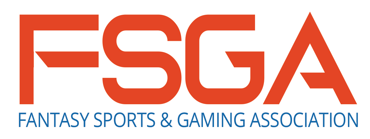 FSGA logo